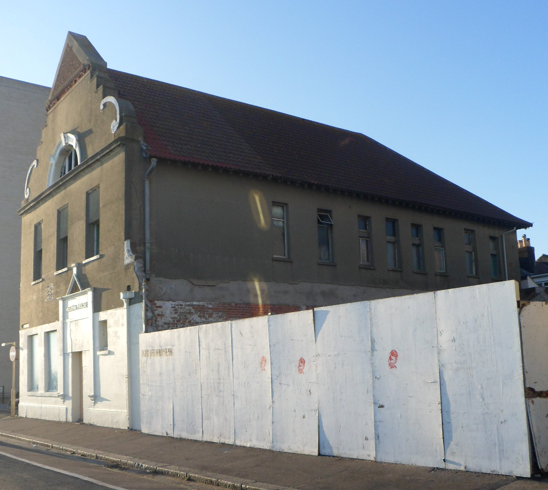 Medina House, Kings Esplanade, Hove, City of Brighton and Hove, England. A Turkish bath and slipper bath which was built in 1893–94 and opened on 13 September 1894. The "curious, whimsical" building has (as of 2015) suffered two fires and been the subject of nine planning applications to demolish it. The building seems to polarise opinion locally, with many people determined to save it and many others keen to see the site redeveloped. This picture dates from September 2013, between the two fires. The building has "locally listed" status and was retained on Brighton and Hove's Draft Local List of Heritage Assets in March 2015 when the whole list was reassessed. See here for the heritage assessment.